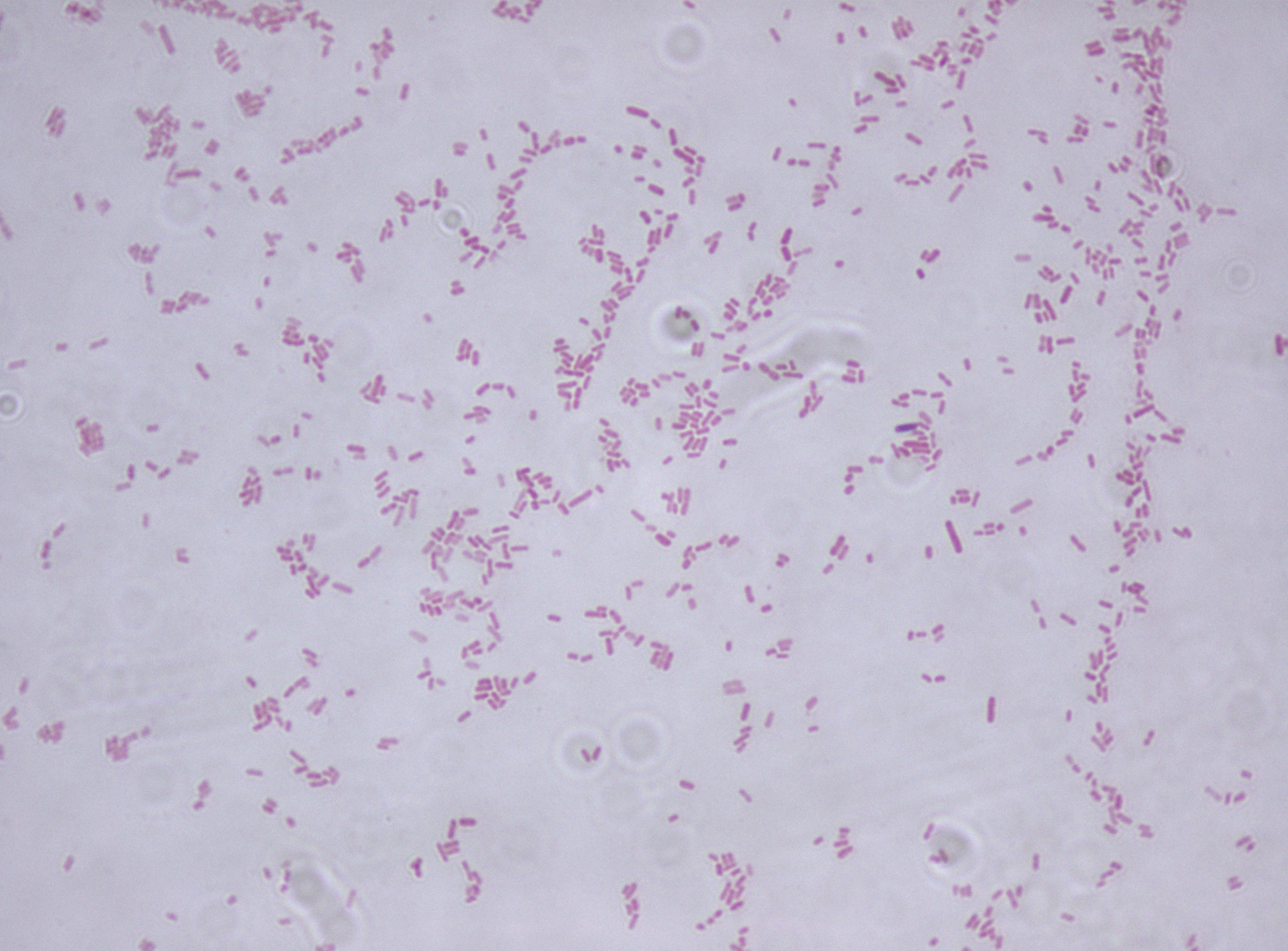 Gram-stain